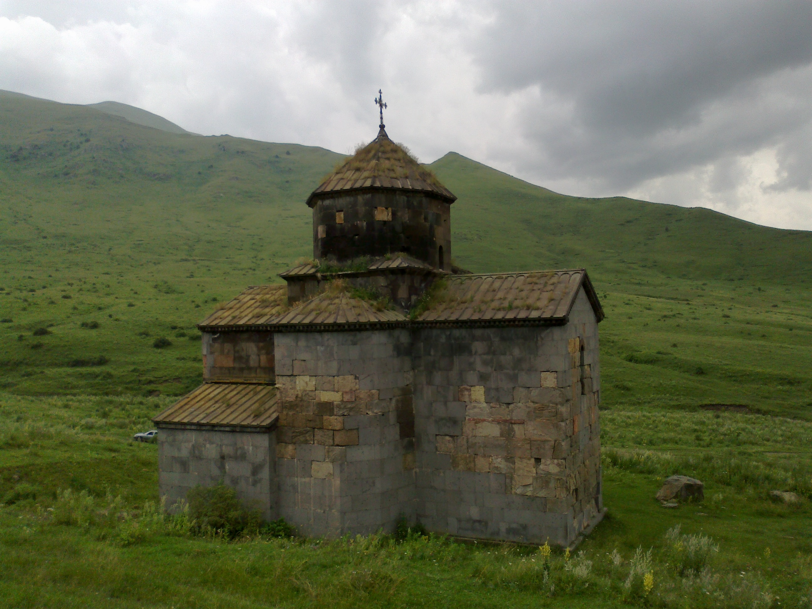 Sverdlov St. George Church in Armenia 101/7